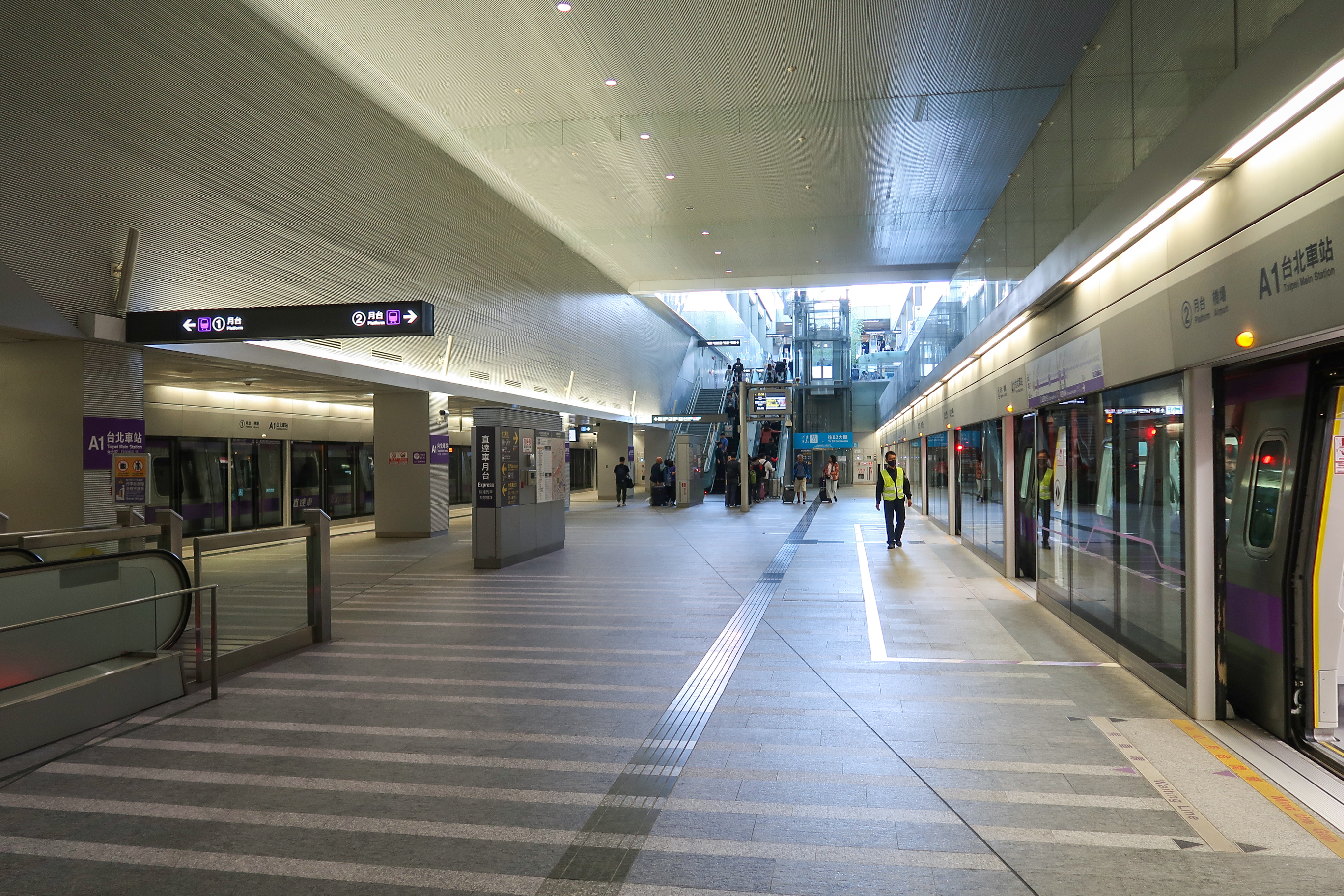 Taipei Main Station Taoyuan Metro Express platform